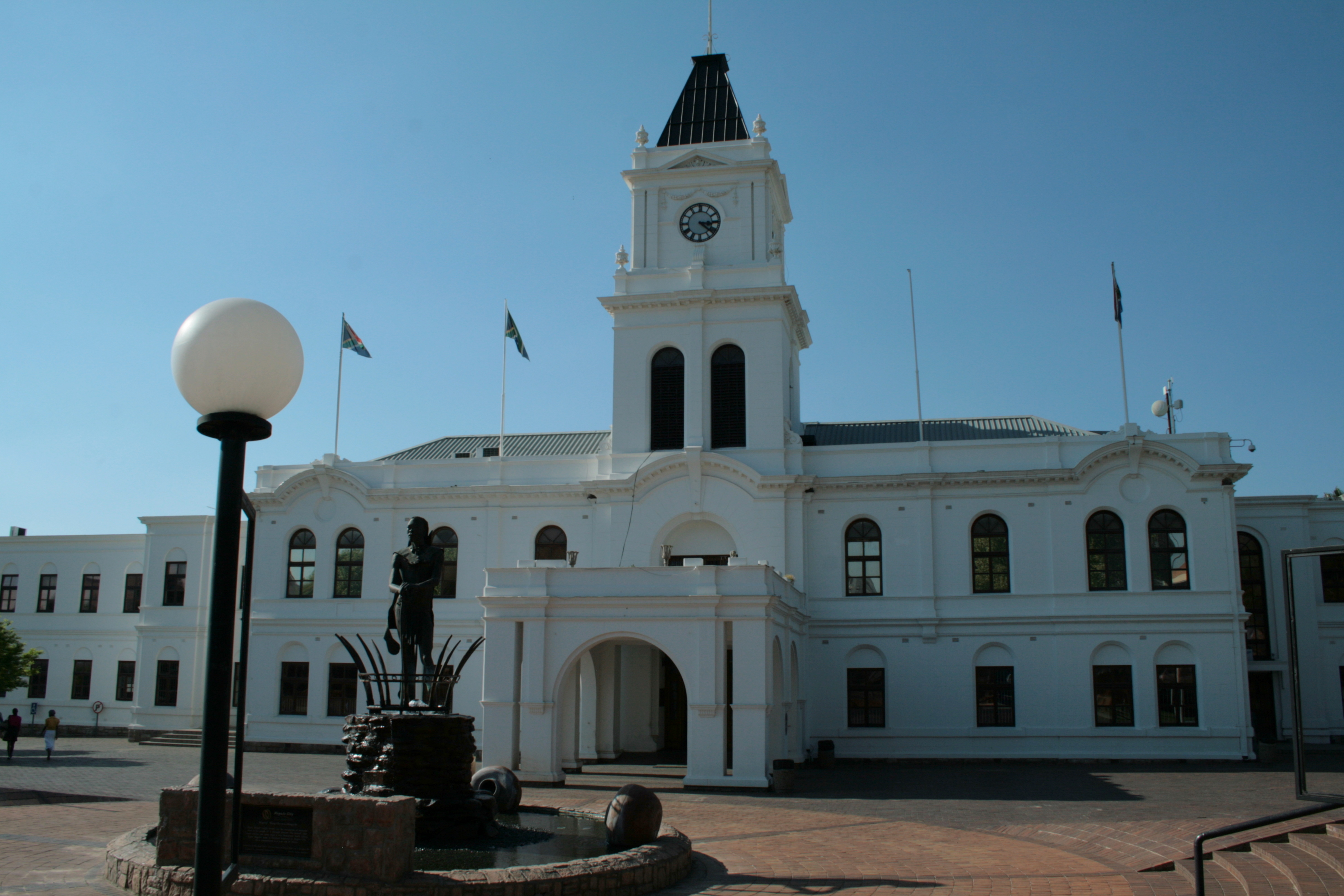 Town Hall in Krugersdorp, South Africa